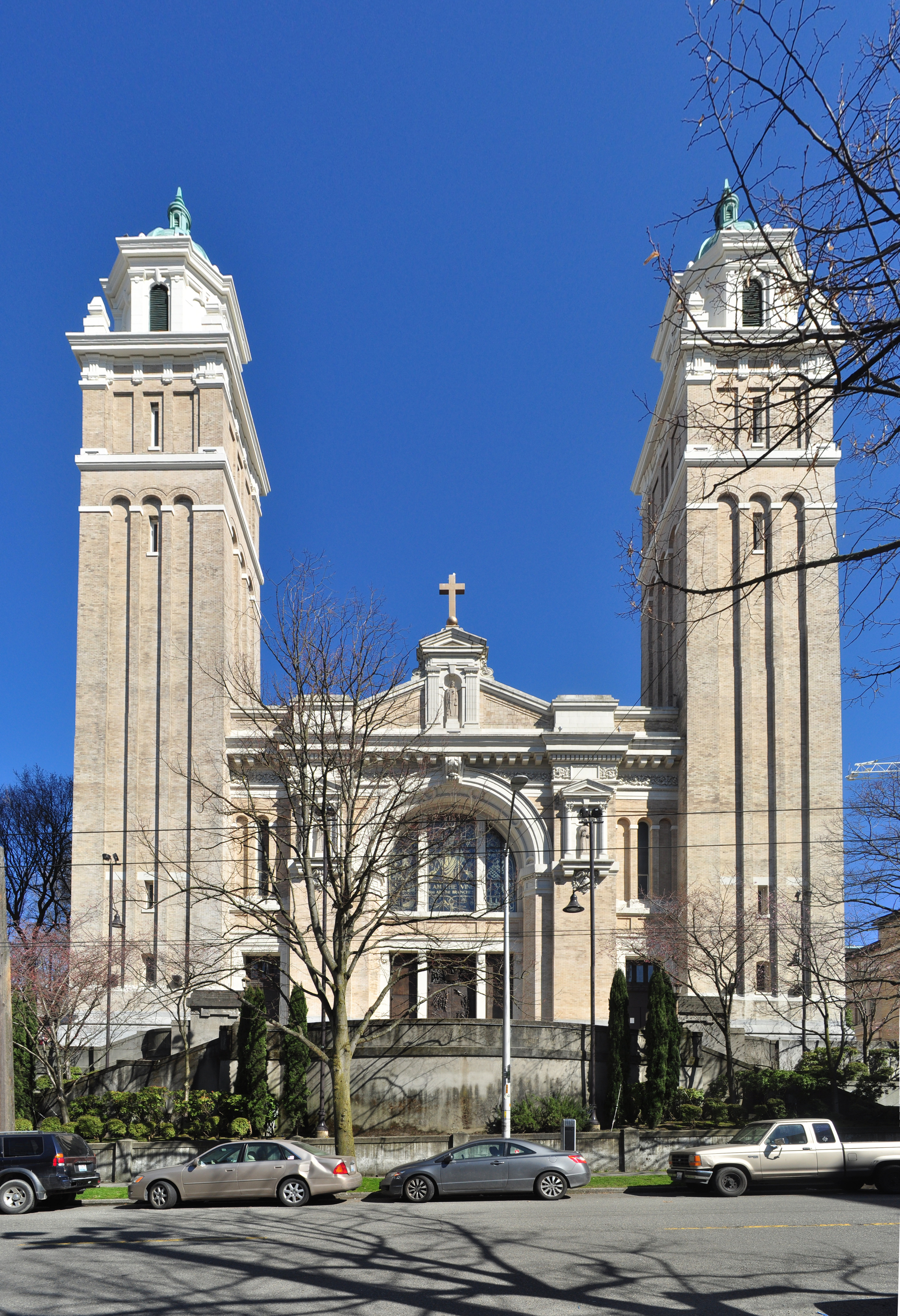 St. James Roman Catholic Cathedral, First Hill, Seattle, Washington, U.S., seen from the across 9th Avenue. This is a panoramic image, created from three photographs (vertically). Five further photographs were introduced to create File:Seattle - Saint James Cathedral pano 02.jpg. This image was created with Hugin.